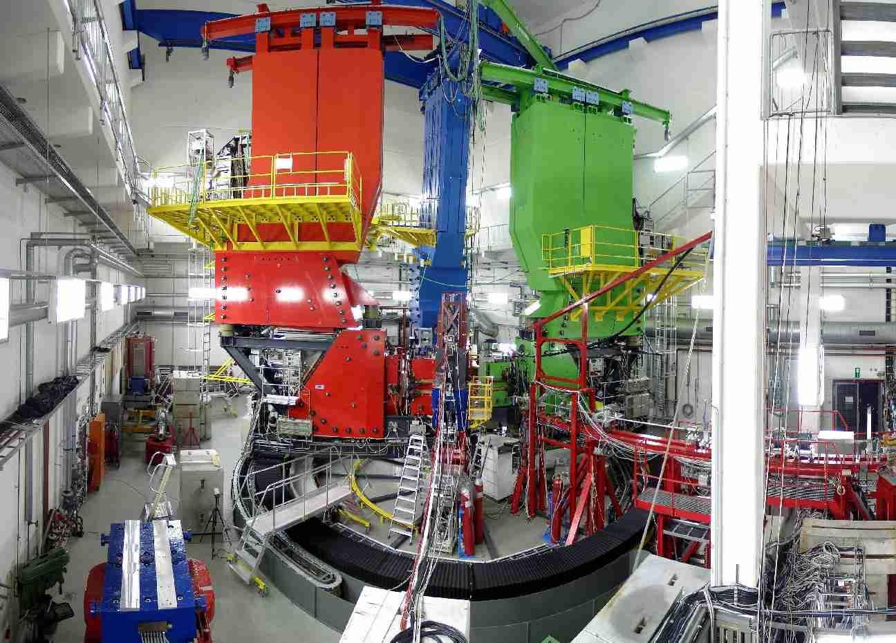 Mami dsa